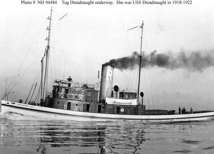 The tug Dreadnaught prior to her United States Navy service as USS Dreadnaught (YT-34).